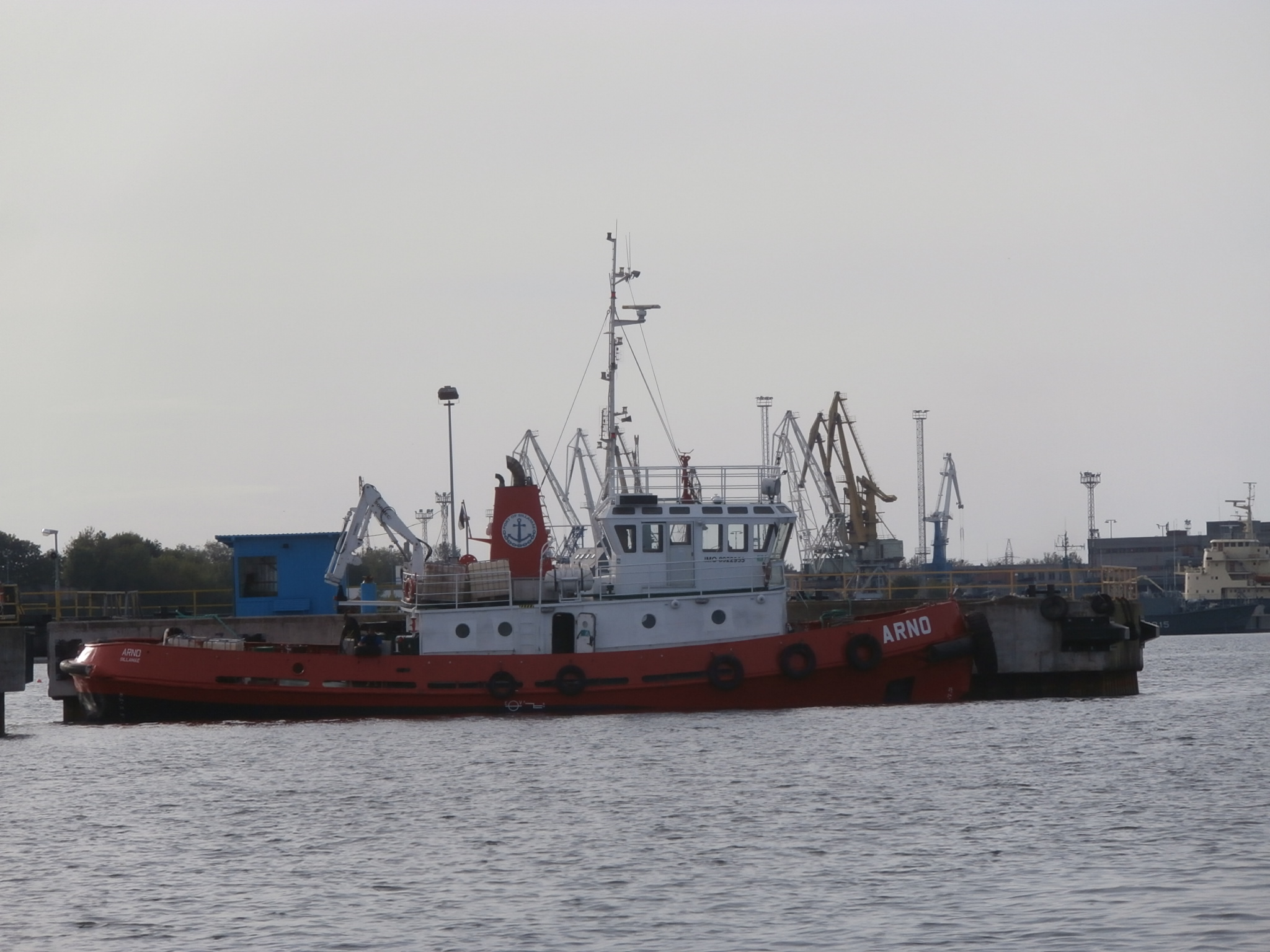 Arno at quay at Noblessner Shipyard, Tallinn 31 August 2015 (Tarmo in the background)